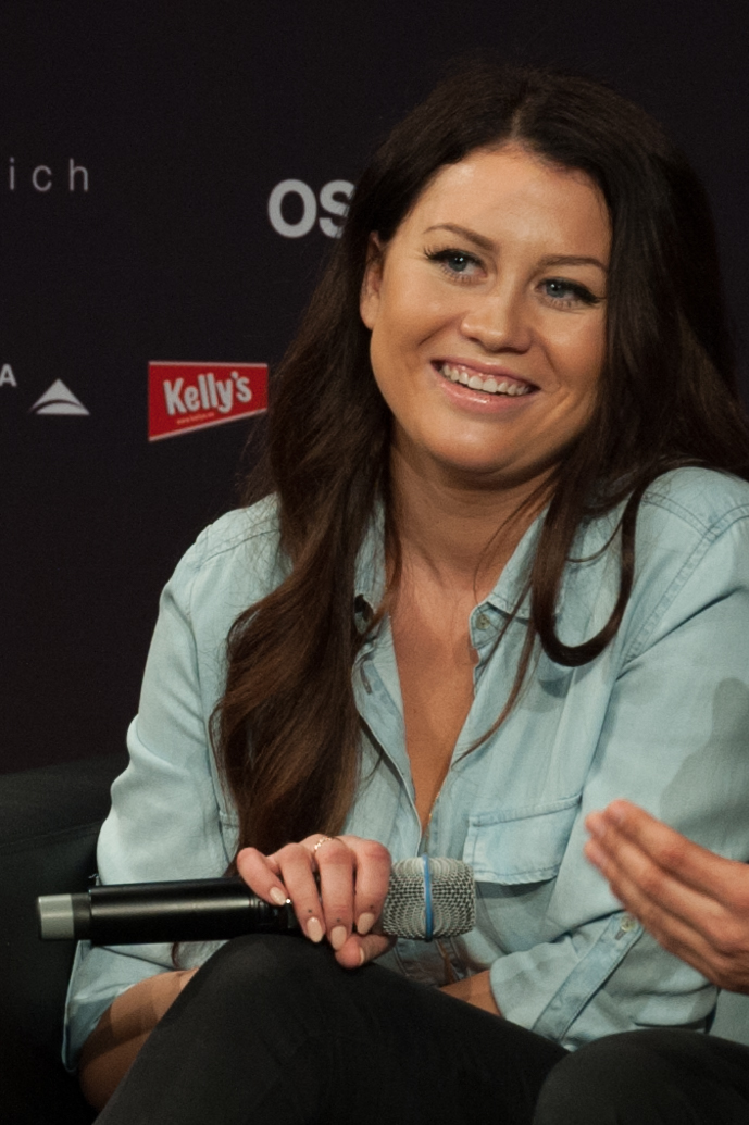 Eurovision Song Contest Vienna 2015: Elina Born